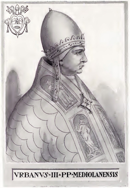 This illustration is from The Lives and Times of the Popes by Chevalier Artaud de Montor, New York: The Catholic Publication Society of America, 1911. It was originally published in 1842.